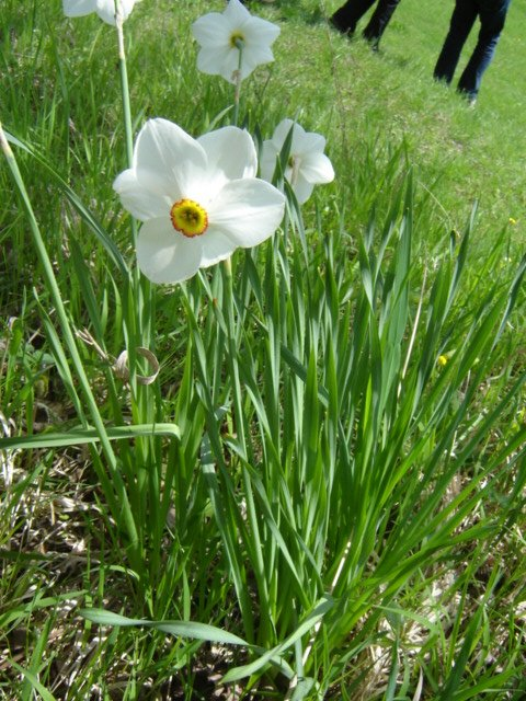 Narcissus poeticus (Habitus) (Photo near Löberschütz in Germany)